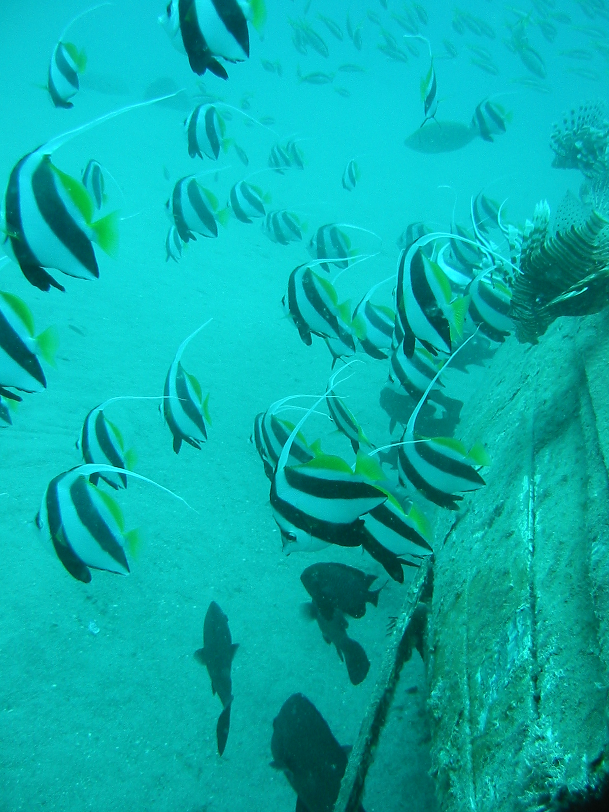 Category:Heniochus diphreutes